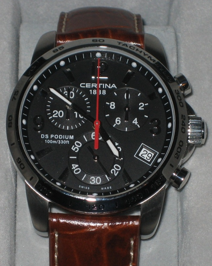 Picture of a Certina DS Podium watch. Brown leather strap, black dial.